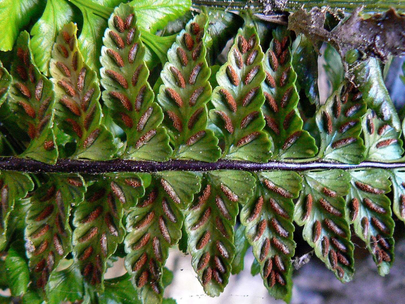 Asplenium marinum, on cliffs, Costa de Cantabria, Spain. Details of the sori